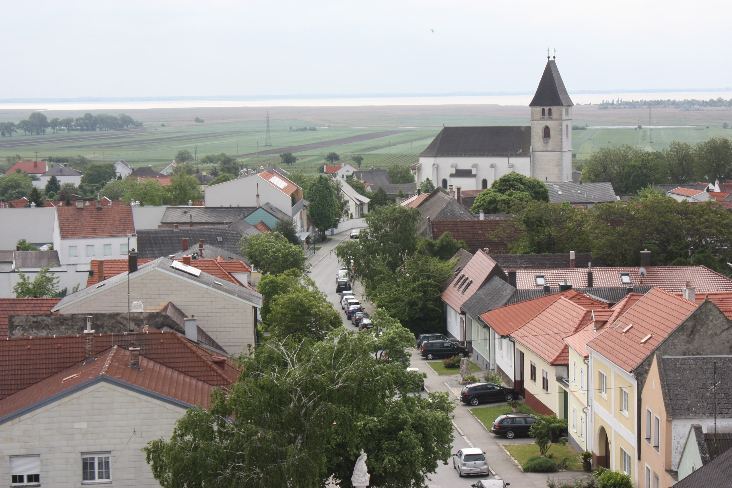 Breitenbrunn (Burgenland), view from the fortified tower to the parish church